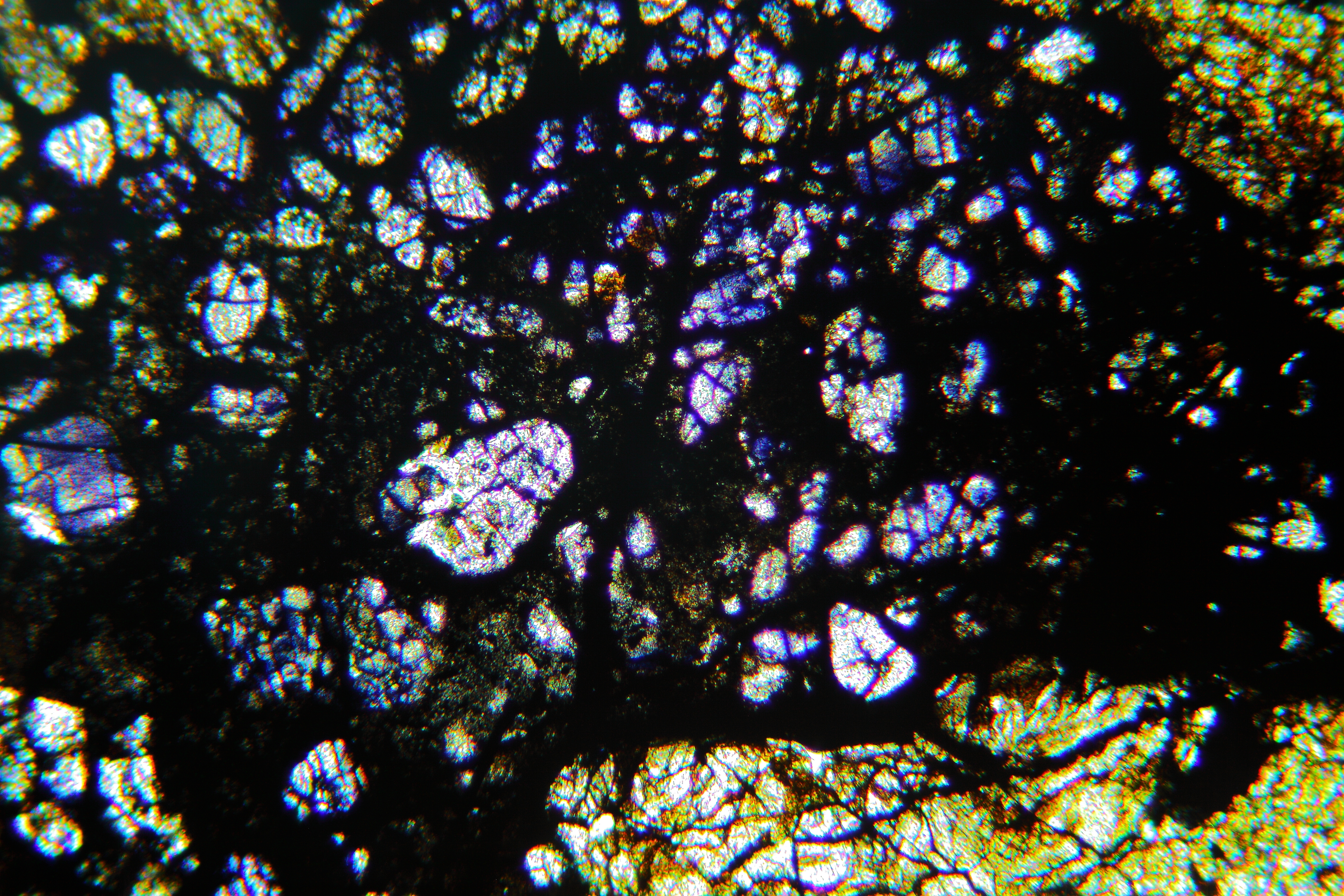 Thin section of an ordinary chondrite from Northwest Africa showing a shock vein and enclosed ringwoodite.